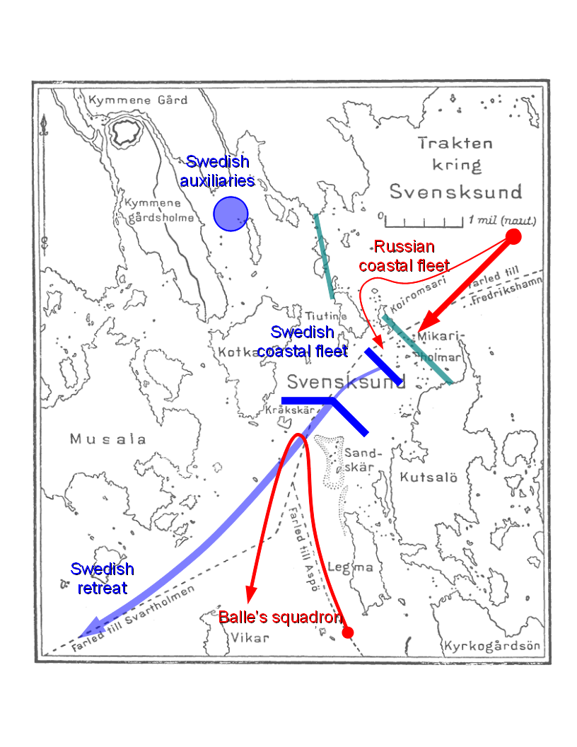 Map of the events related to the first battle of Svensksund in 1789